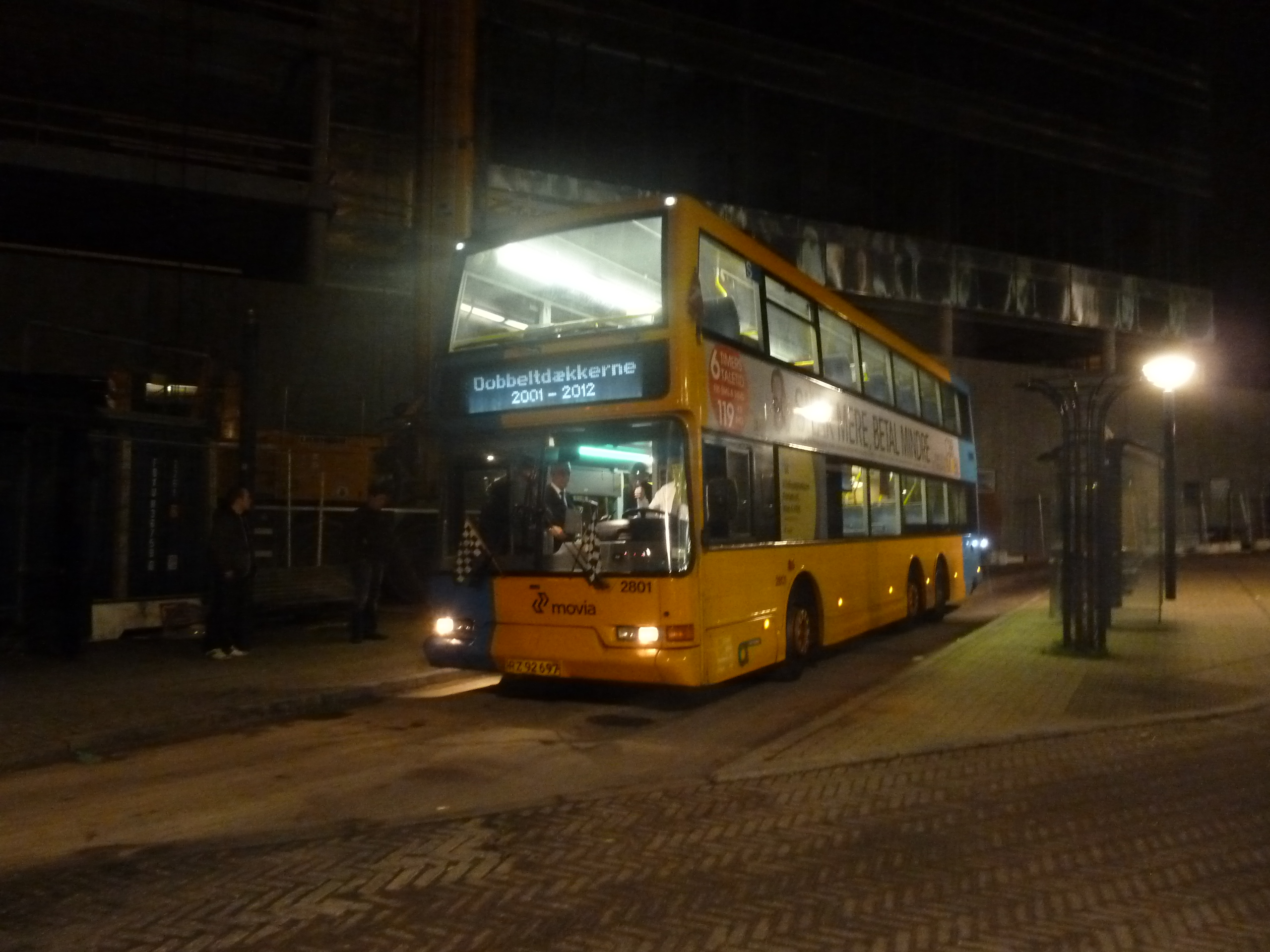 Last double-decker bus in public transport in Copenhagen on Movia bus line 250S at Buddinge Station. The rally flags was placed there by a photographer.